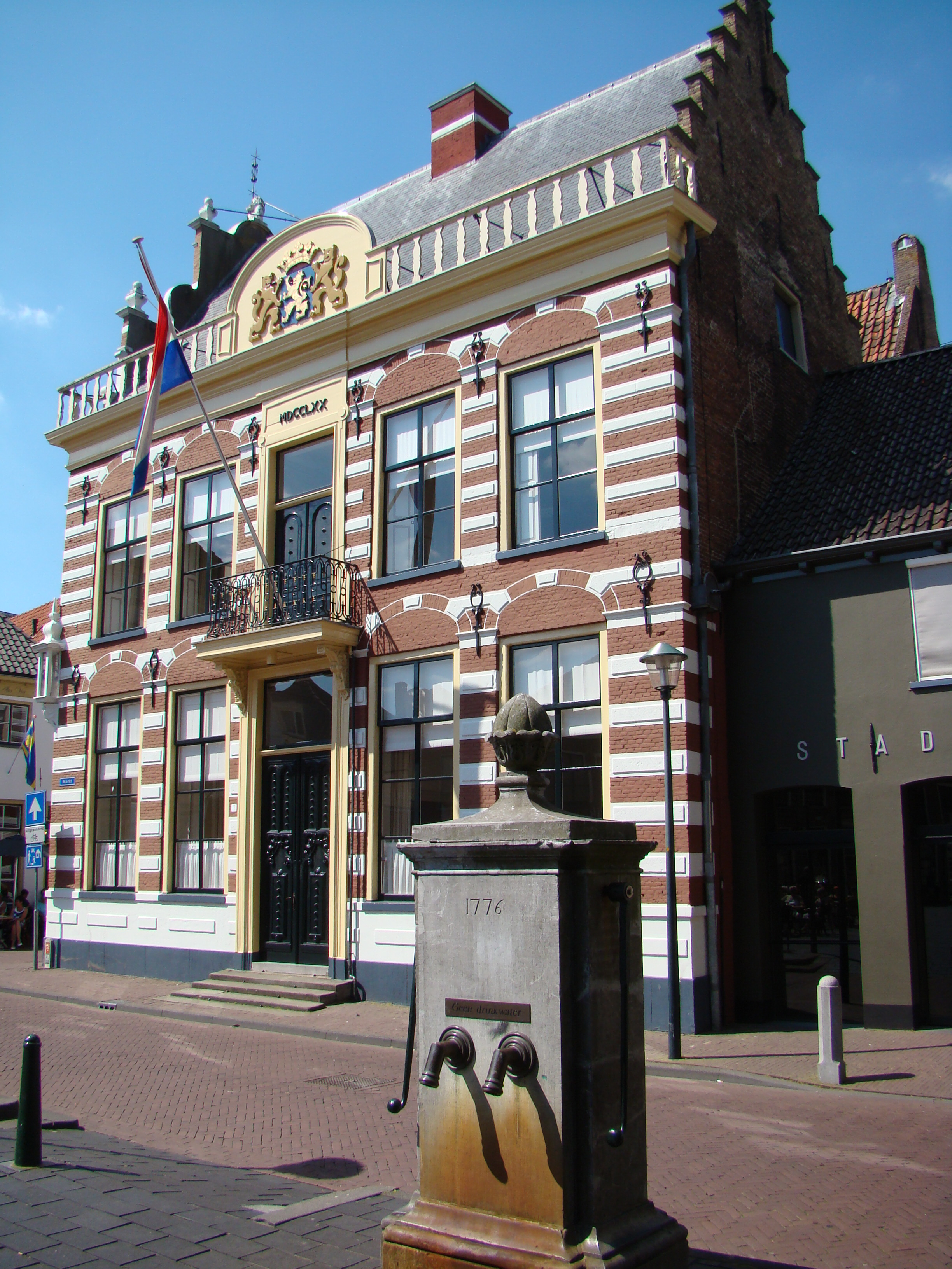 Impressions of Hattem, Netherlands Stadshuis te Hattem